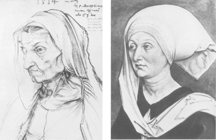 "Portrait of the artist's mother at the age of 63", "Portrait of Barbara Dürer, née Holper"